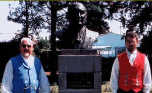 Picture of Willie van Vollenhofen and Anton van Vollenhofen with the bust of SH Pellisier, the originator of Vokspele (Folk dancing done by Afrikaners in South Africa).